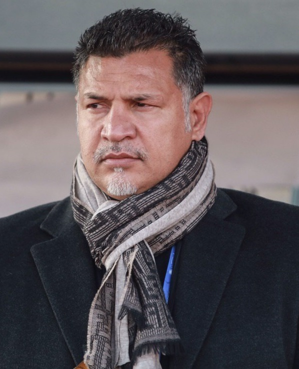 Ali Daei